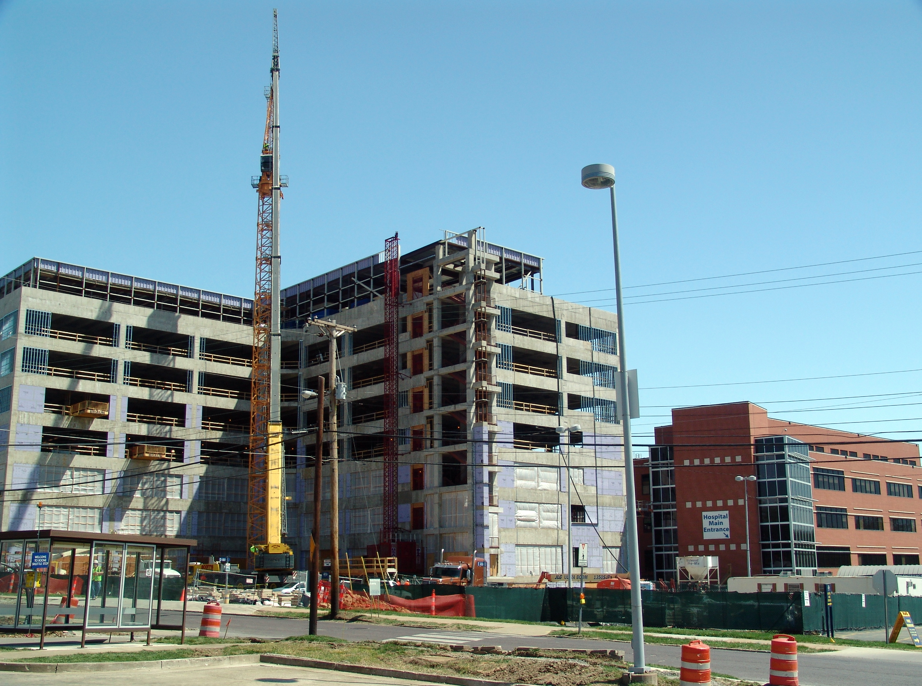 A photo of the new patient care tower currently under construction at Boone Hospital Center in Columbia, Mo.